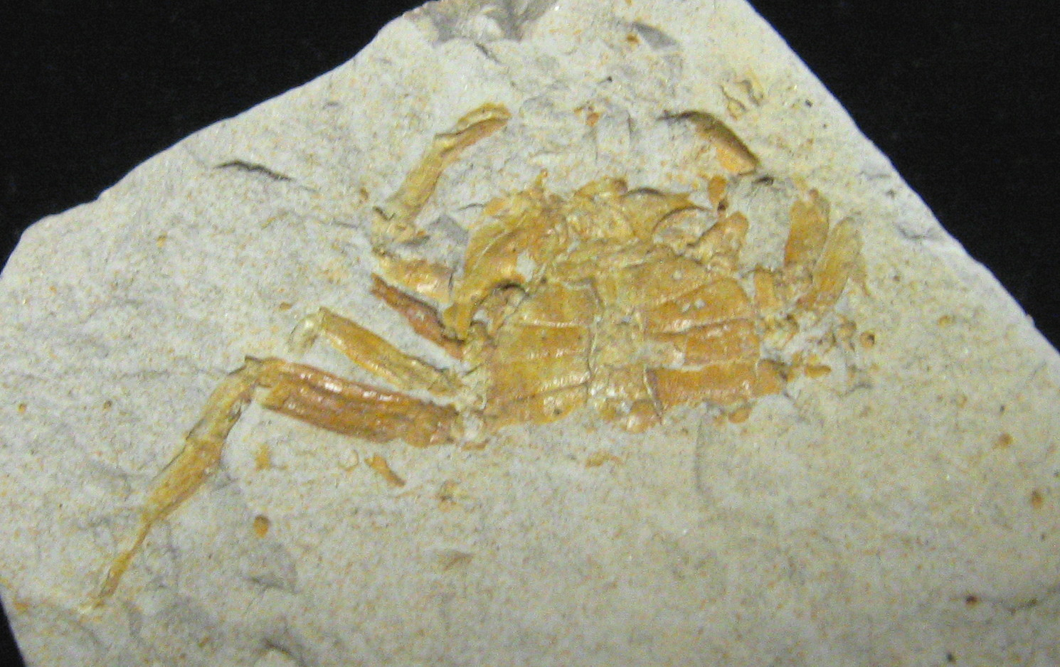 A fossil Pinnixa galliheri with a ~3cm wide carapace, from the Miocene Monterey Formation, Pacific Grove, California, USA. Stonerose Interpretive Center, Gary Eichhorn Crab Collection #SR EC 07-01-04.